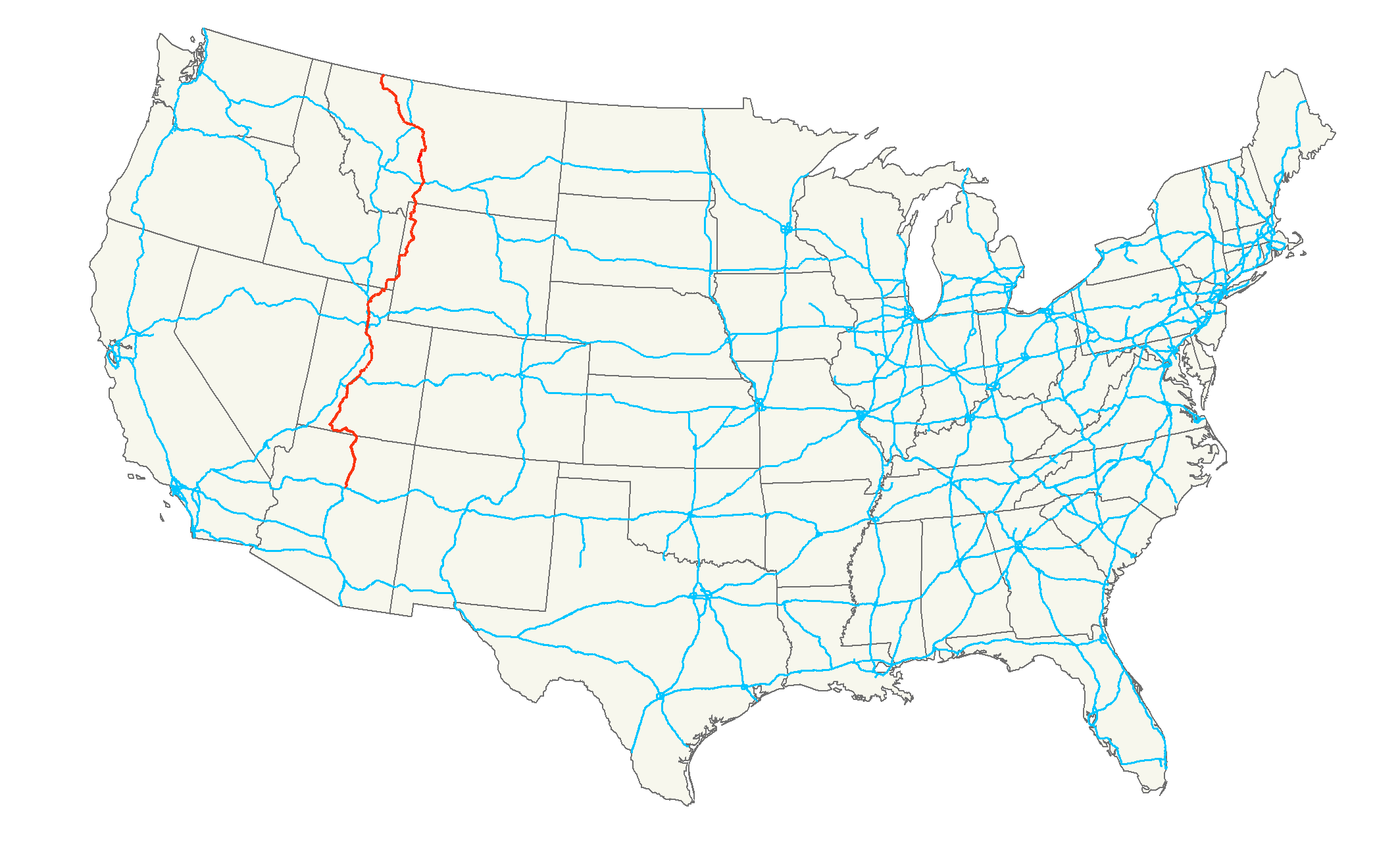 Map of U.S. Route 89